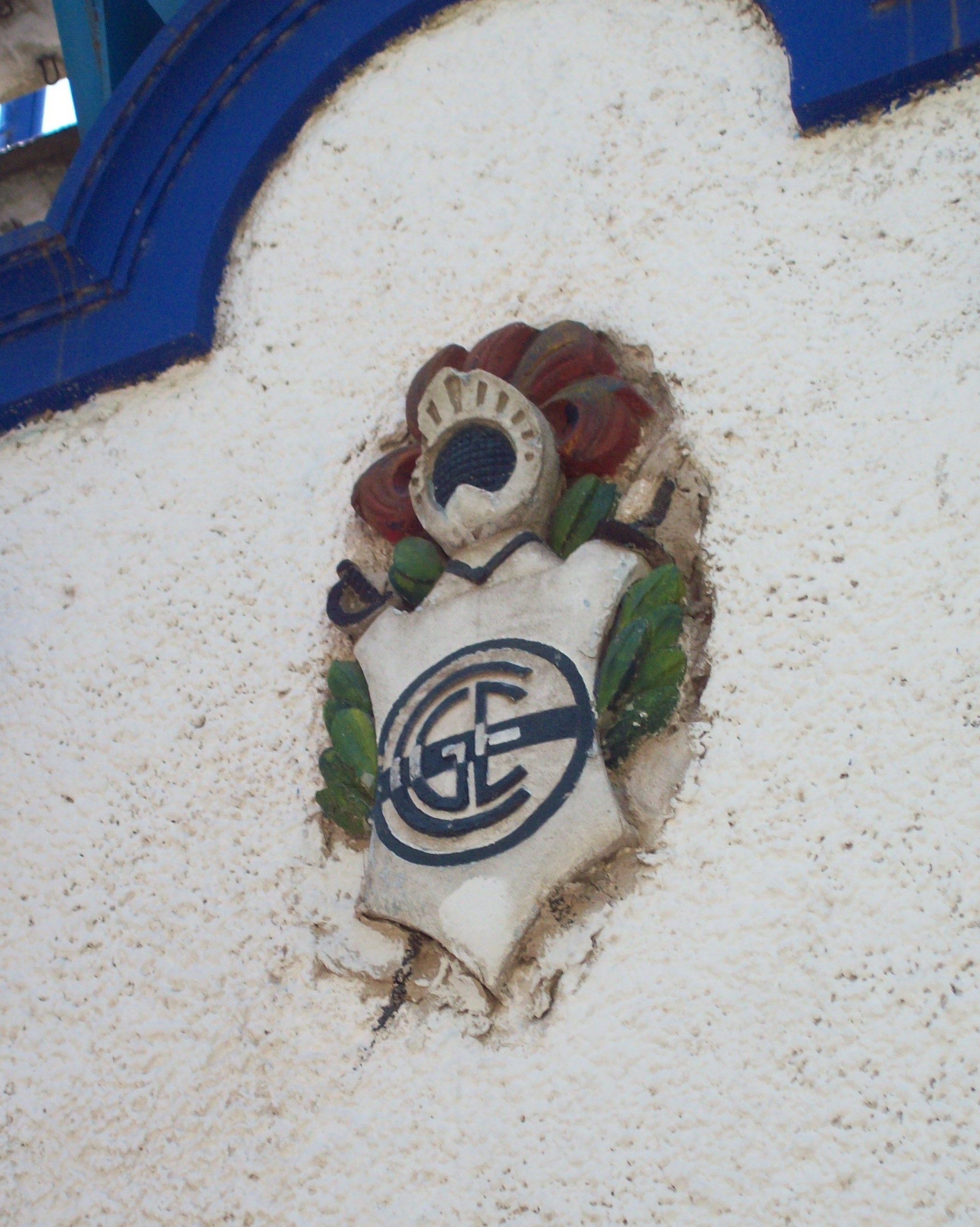 Logo of Club Gimnasia y Esgrima de La Plata, placed on the back of Juan Carmelo Zerillo stadium's stands.